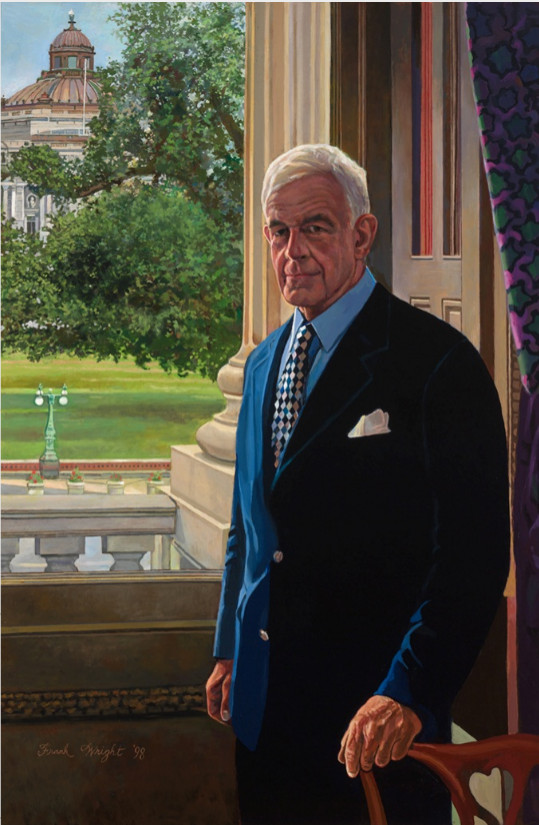 U.S. House of Representative Speaker (1989-1995) Tom Foley (D-WA)